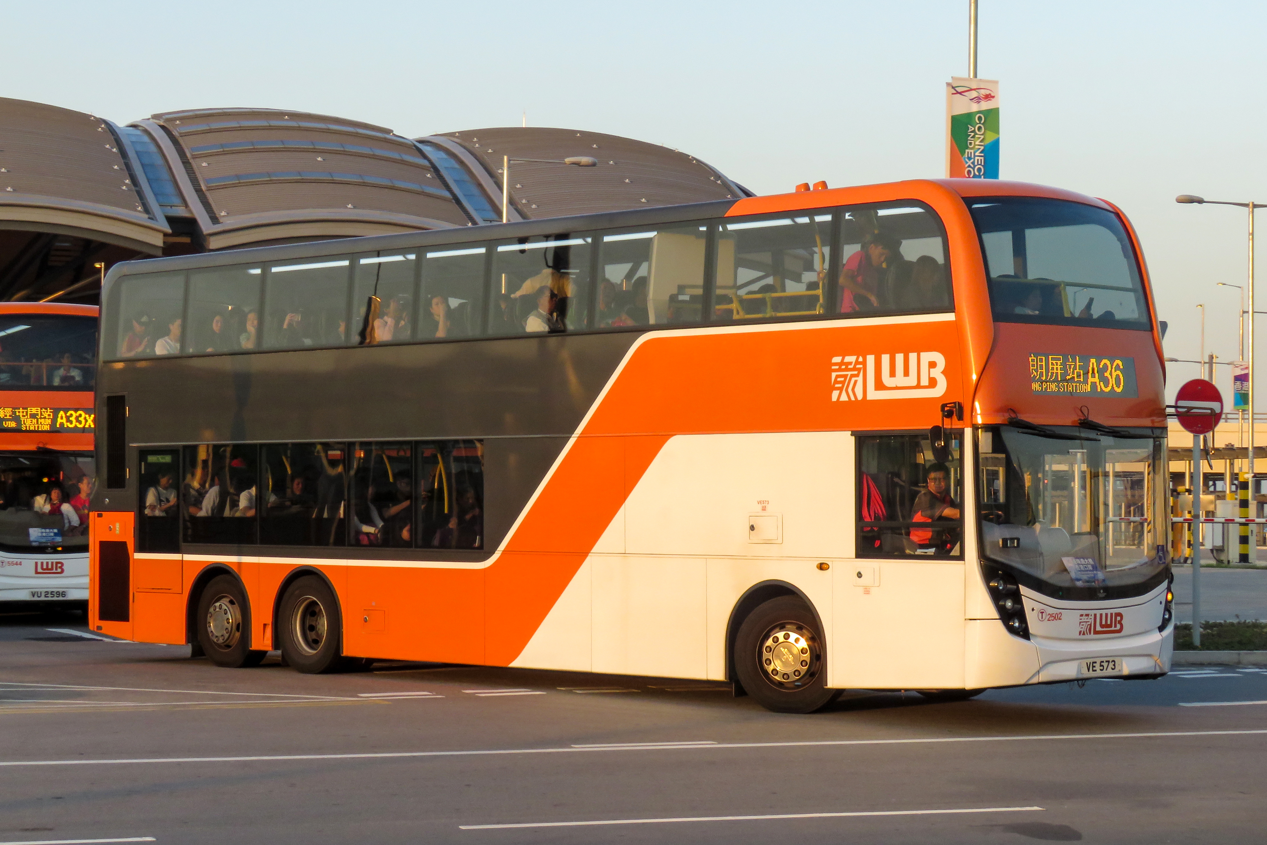 "Escalator" livery for LWB's "semi-coaches".